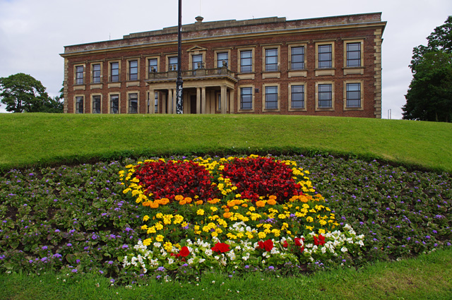 Photograph of Morecambe Town Hall, Lancashire